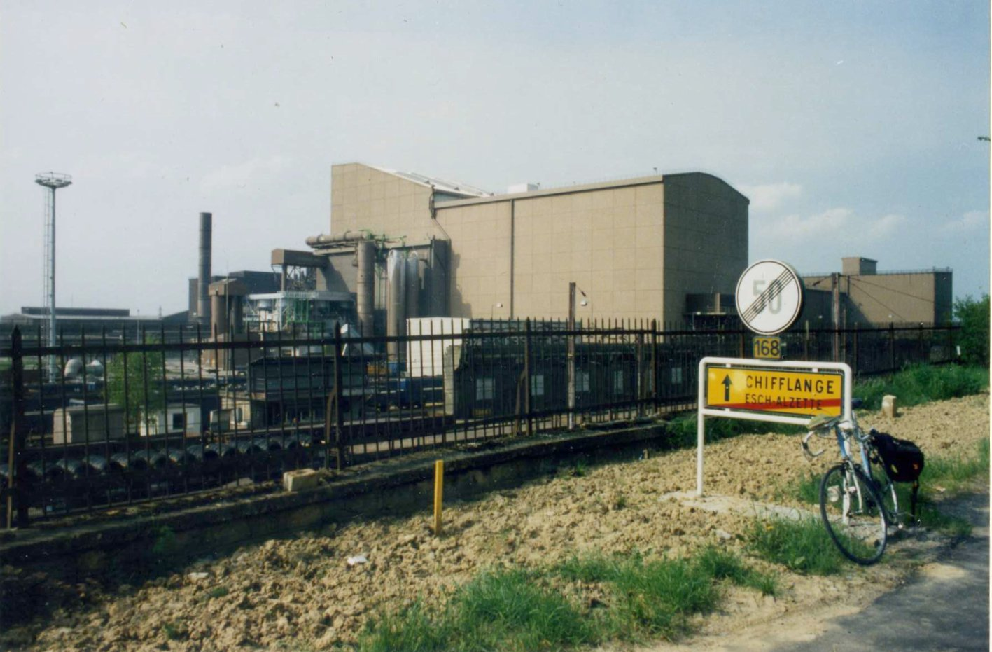 Arbed Esch-Schifflange, May 1995